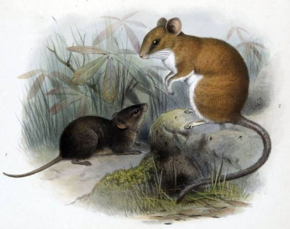 left: Alston's brown mouse (Scotinomys teguina) right: Sumichrast's vesper rat (Nyctomys sumichrasti)